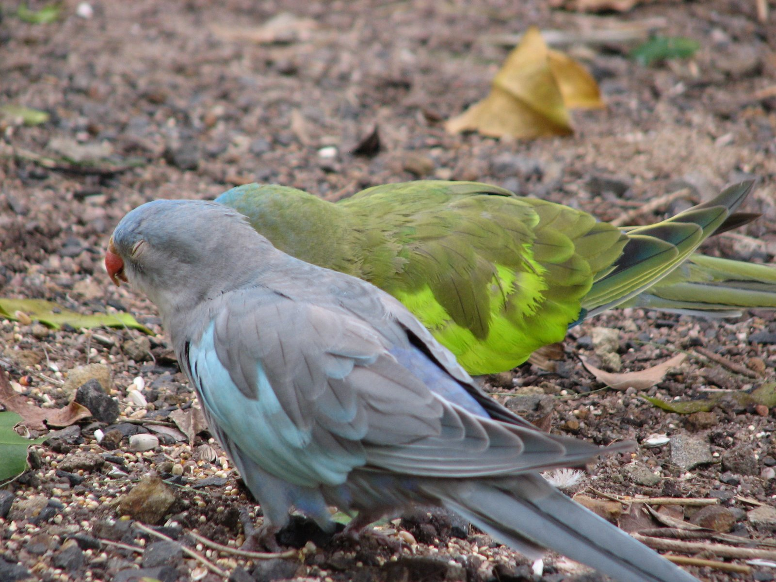 A blue mutant Princess Parrot with a normal wild type at Flying High Bird Sanctuary, Australia.